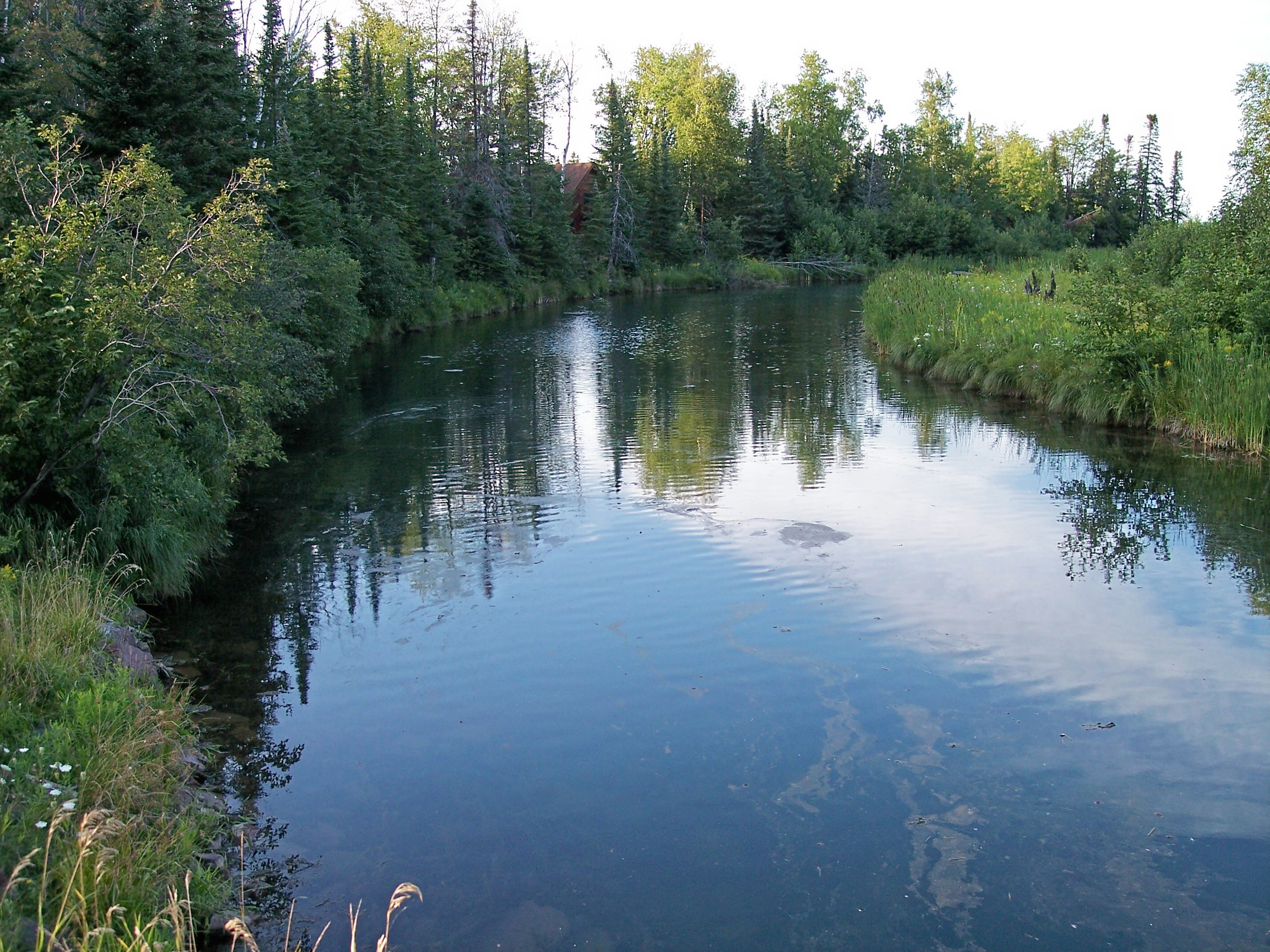 A downstream view of the Mineral River, just above its mouth at Lake Superior, from Michigan State Highway 64 in Ontonagon County, Michigan